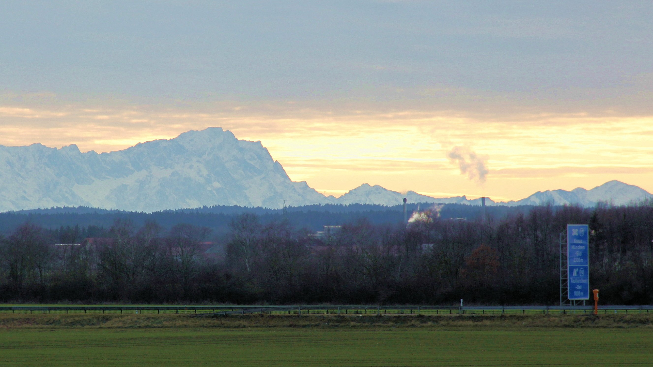 Ottobrunn (Karl-Mager-Weg): View on a Foehn wind day to the Zugspitze, 87 kilometres (54 miles) away. In the foreground: the Bundesautobahn 8.